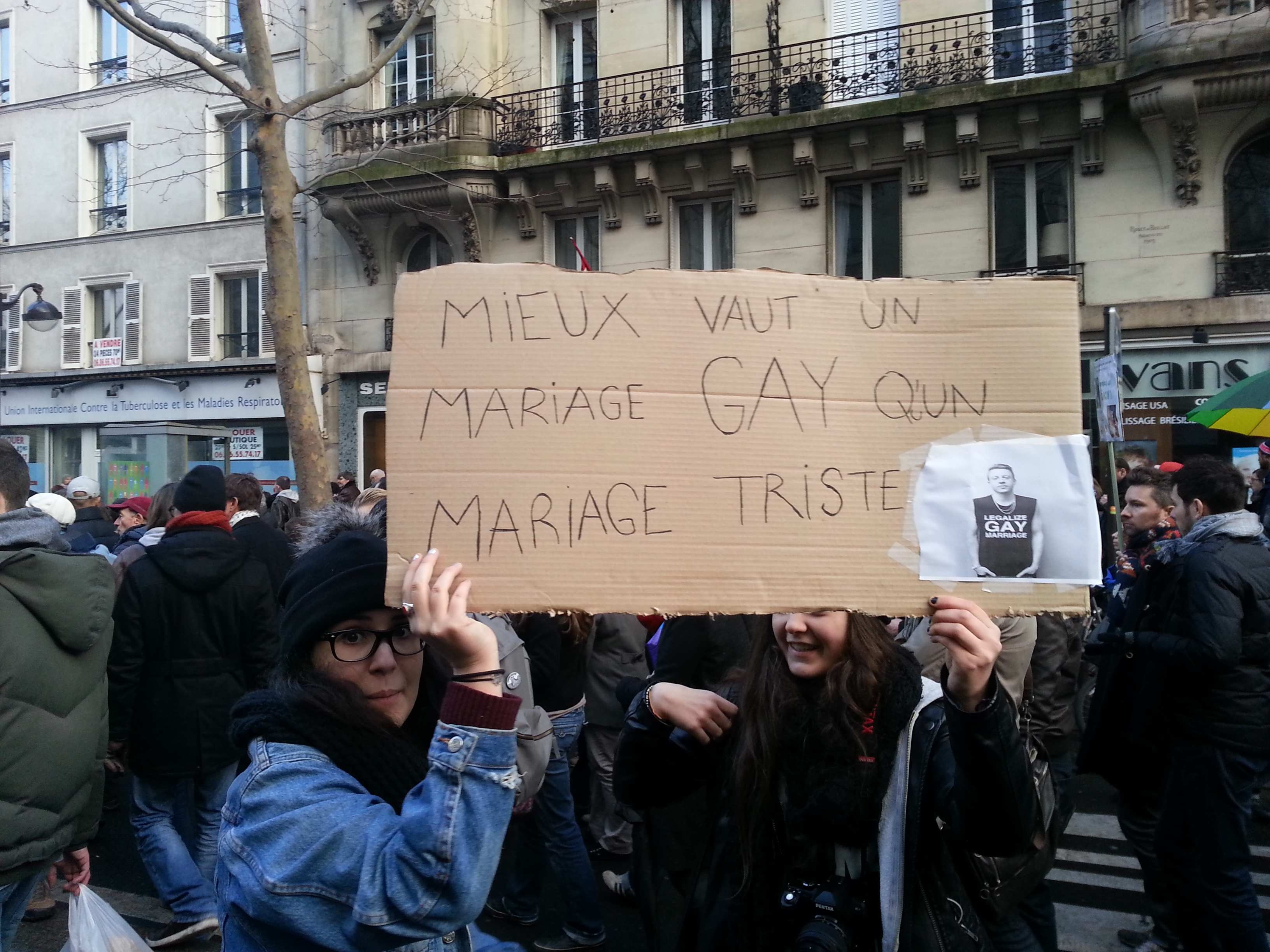 Two protesters during the marriage equality demonstration in Paris, 27 January 2013 wave a sign with the French slogan "Mieux vaut un mariage _GAY_ qu'un mariage triste" meaning in English "Better a _GAY_ marriage a sad marriage". The photo is taken in front of the headquarters of International Union Against Tuberculosis and Lung Disease